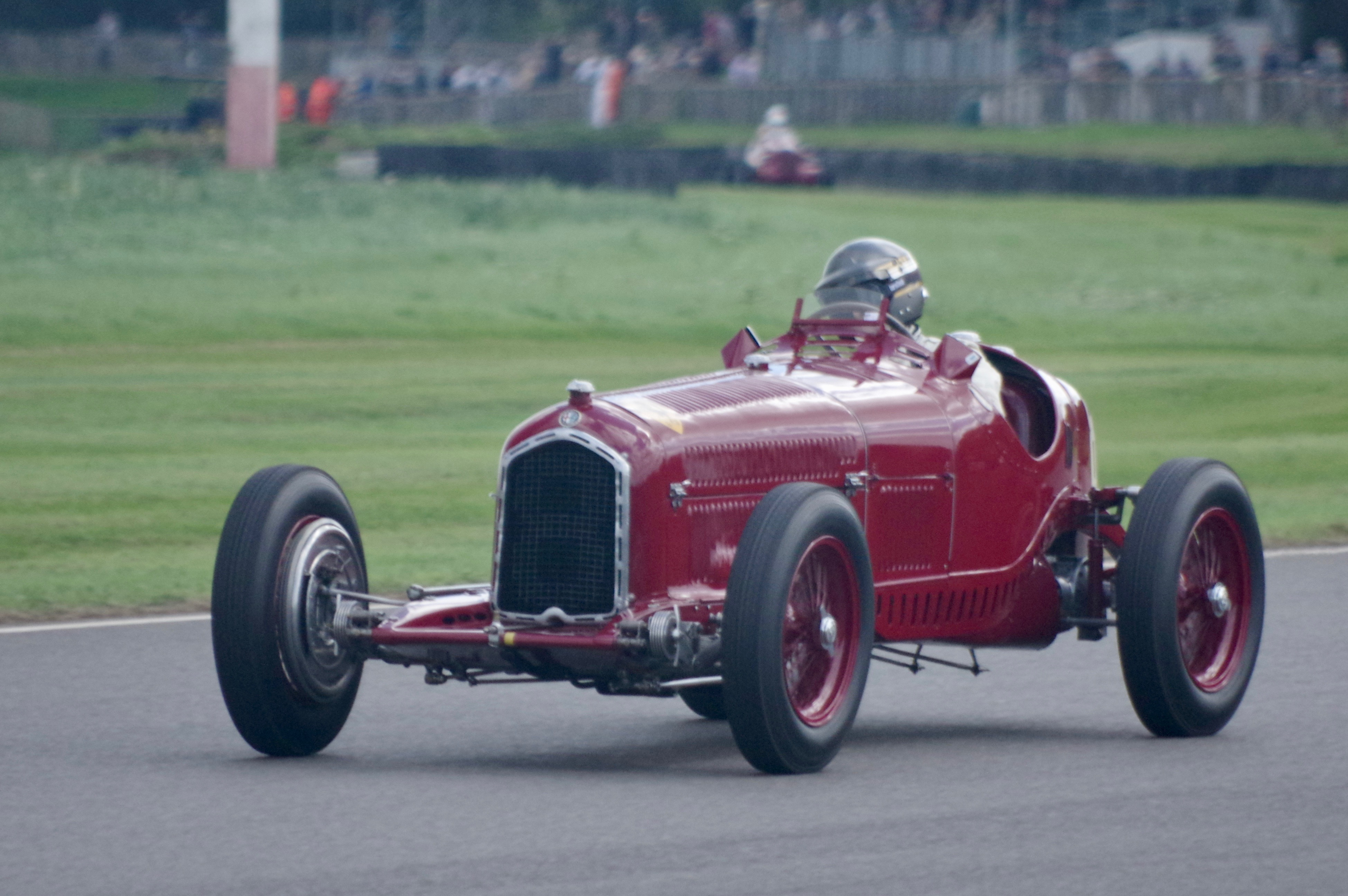 Goodwood Trophy - Grand Prix Cars 1930 to 1951 Goodwood Revival